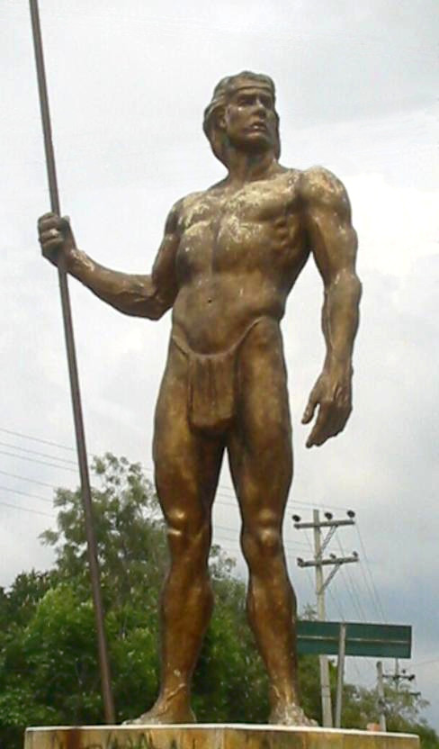 Sculpture of a native american man standing. At the entrance of Fusagasugá, Colombia. Probably of the sutagao ancestry.